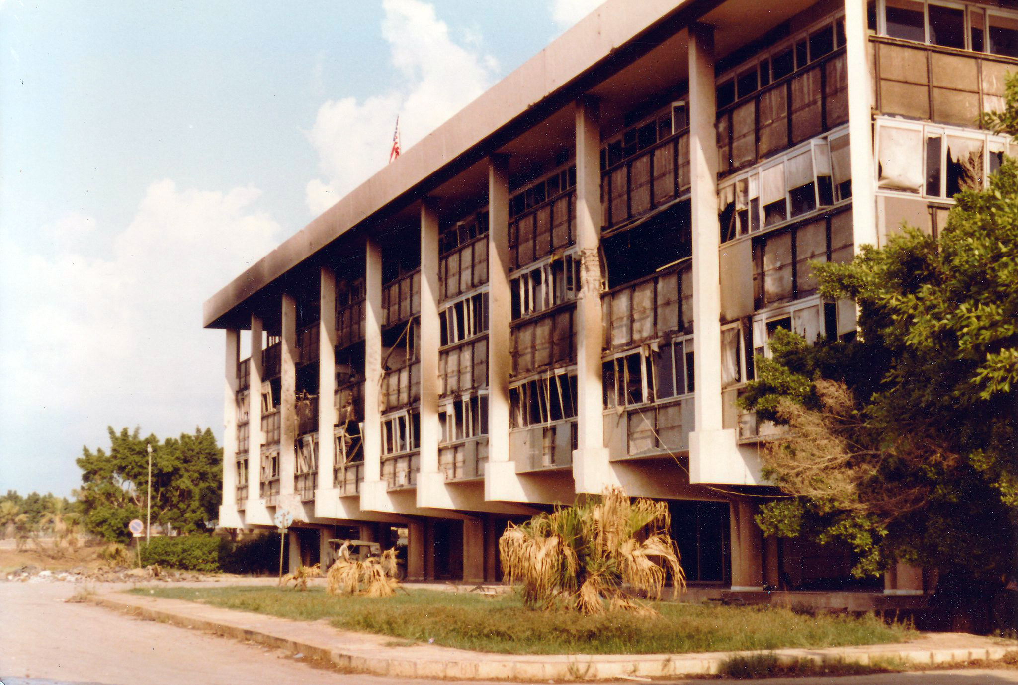 This is the building that was destroyed in October 1983 by a suicide truck bomber. That happened about a year after this photograph was made.